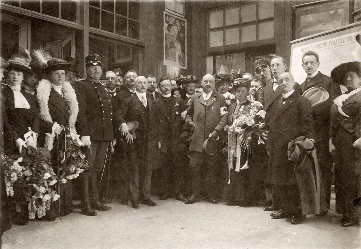 Second Balkan War. After delivering medical care in Cetinje, Montenegro during the Second Balkan War the Dutch Herman Koppeschaar, MD (with brassard) returns to the Netherlands with the staff of his field hospital . Amsterdam, Weesperpoort railway station, 26 April, 1913.